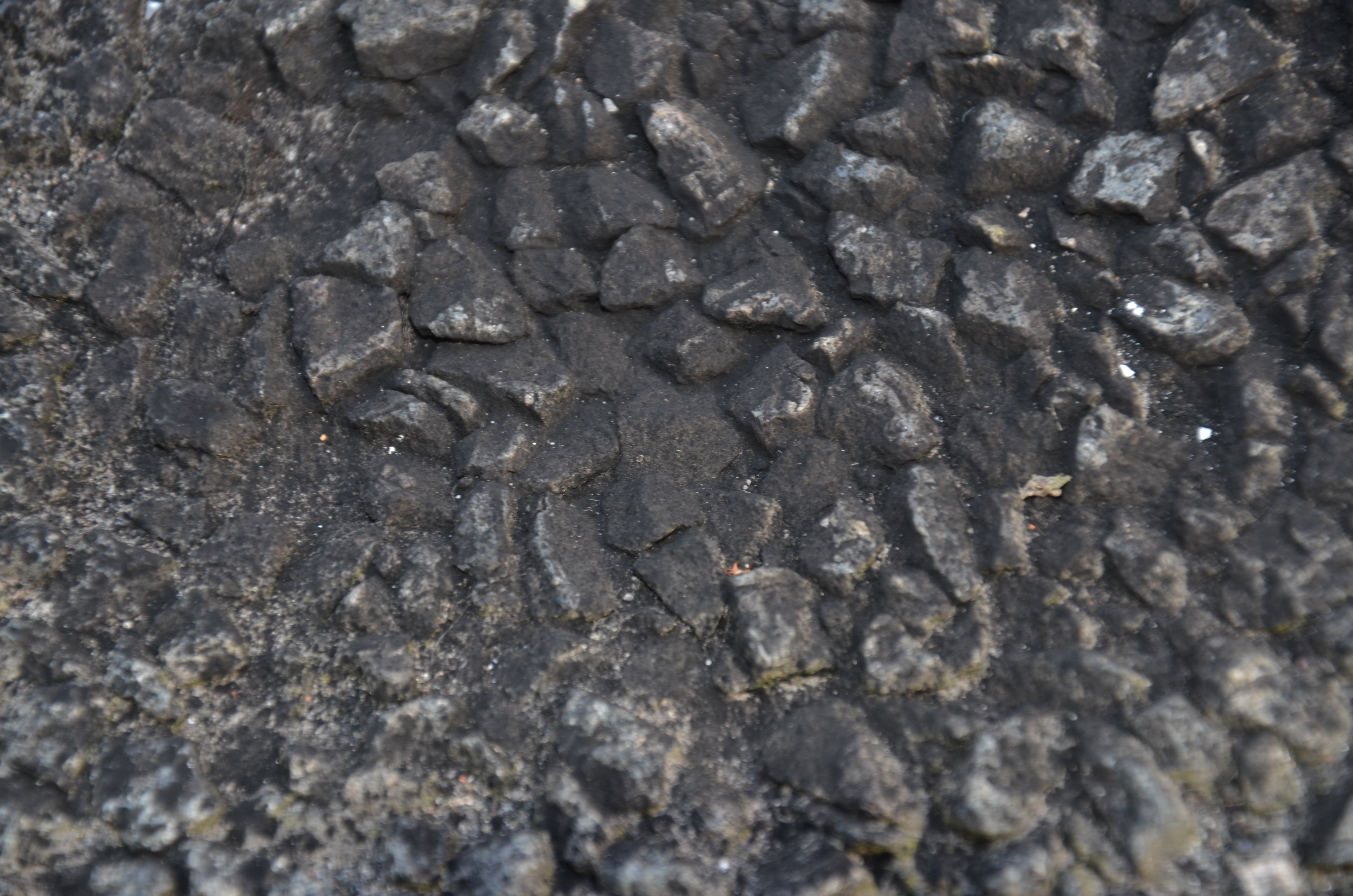 Deposition of carbon particles (soot), from a muffler, at cold start.